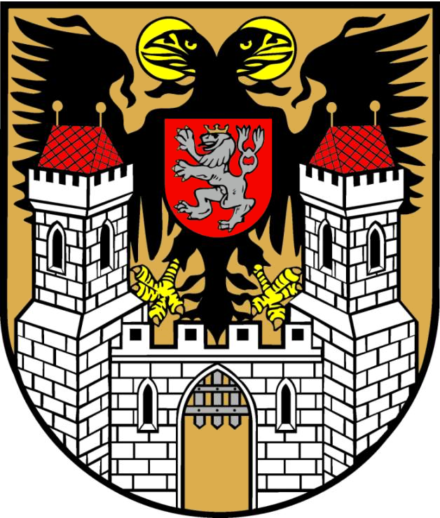 Municipal coat of arms of Tábor town, Czech Republic.